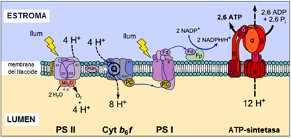 Electron transfer chain in the light-dependent reactions of photosynthesis (in Catalan)